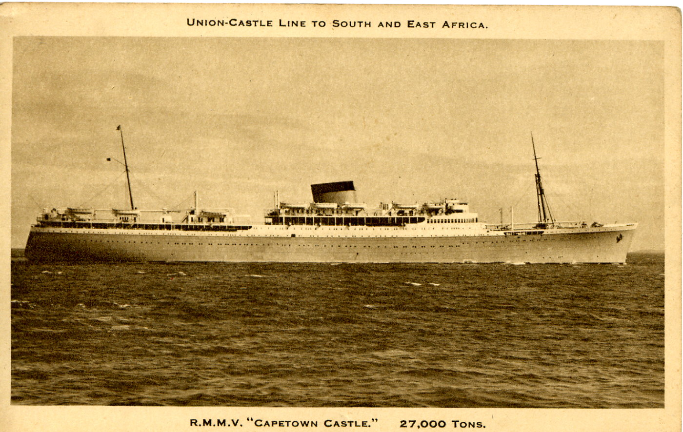 Old postcards of British ships